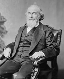 Henry B. Metcalfe, Congressman from New York